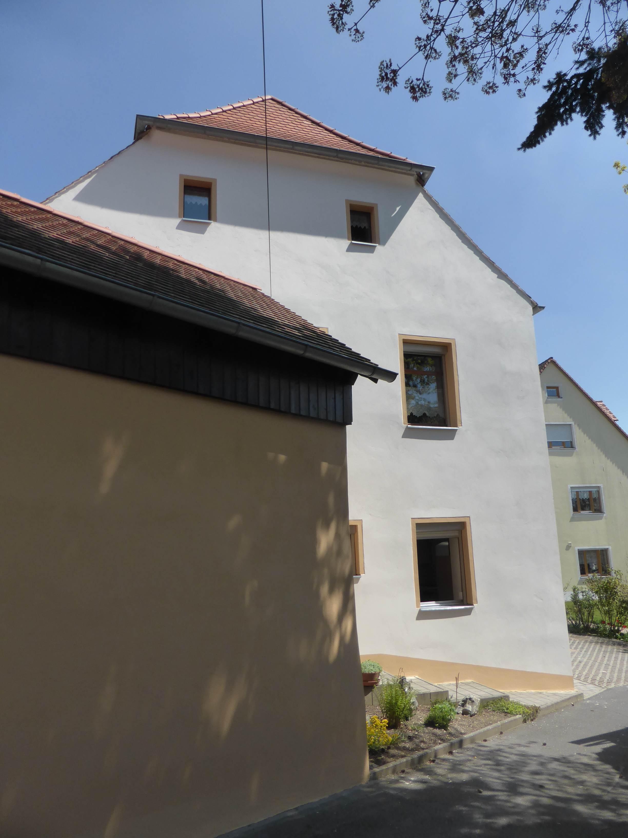 Schloss Penkhof (Rückseite)